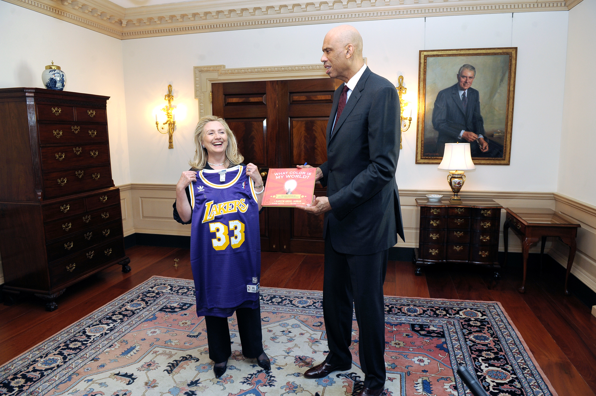 U.S. Secretary of State Hillary Rodham Clinton meets with Hall-of-Famer Kareem Abdul-Jabbar, the NBA’s All-Time Leading Scorer and a New York Times’ best-selling author, to discuss his new role as a global Cultural Ambassador, at the U.S. Department of State in Washington, D.C., on January 18, 2012. [State Department photo/ Public Domain]